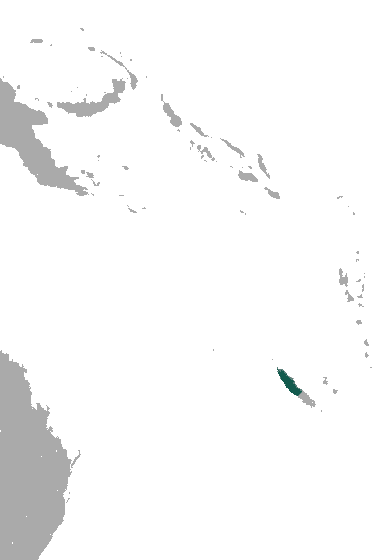 New Caledonia Blossom Bat (Notopteris neocaledonica) range